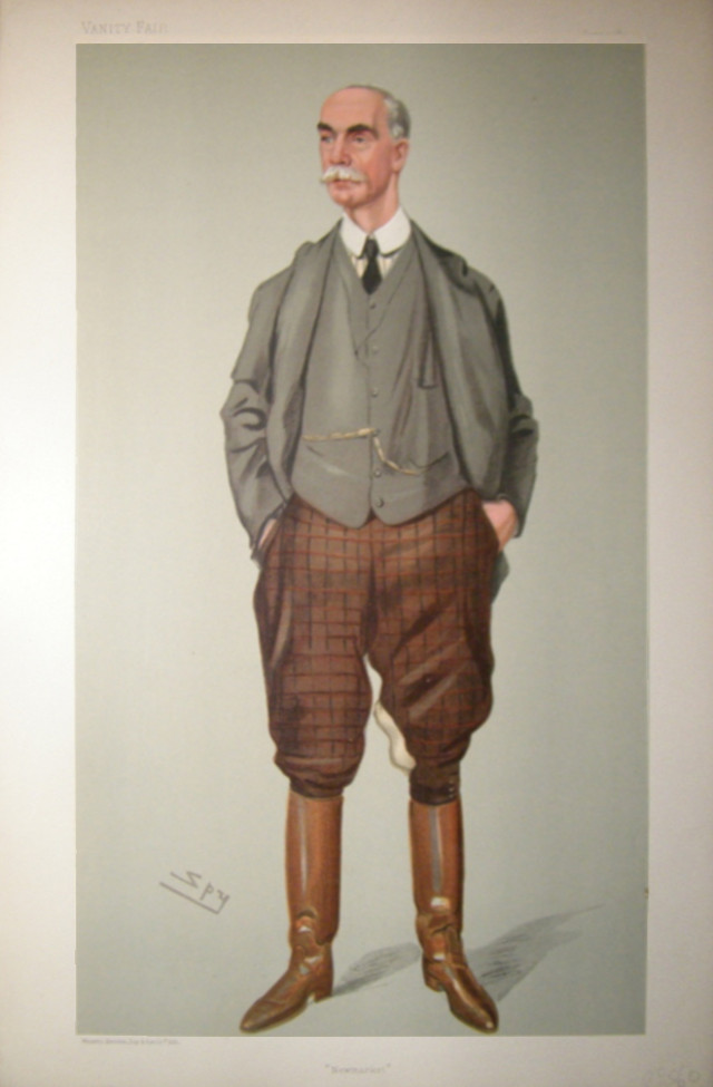 Men of the Day No.0922: Caricature of Mr Charles Day Rose MP. Caption reads: "Newmarket"